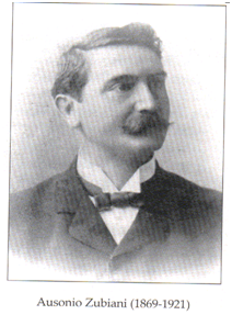 Photo of doctor Ausonio Zubiani